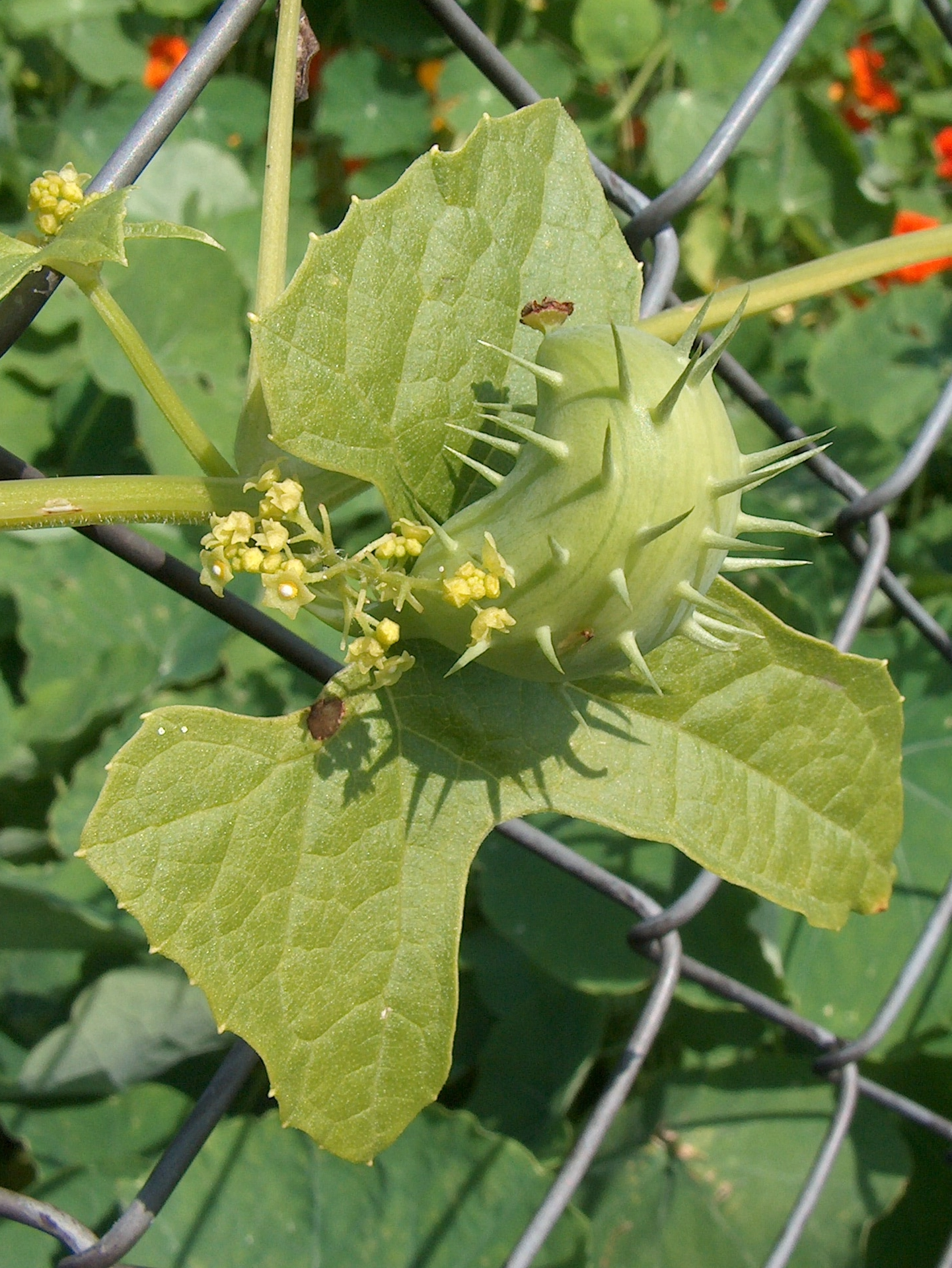 Fruit and leaf of Cyclanthera brachystachya (SER.) COGN